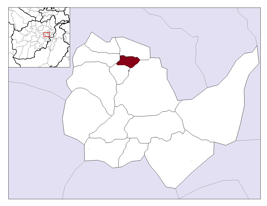 District locator in Kabul Province